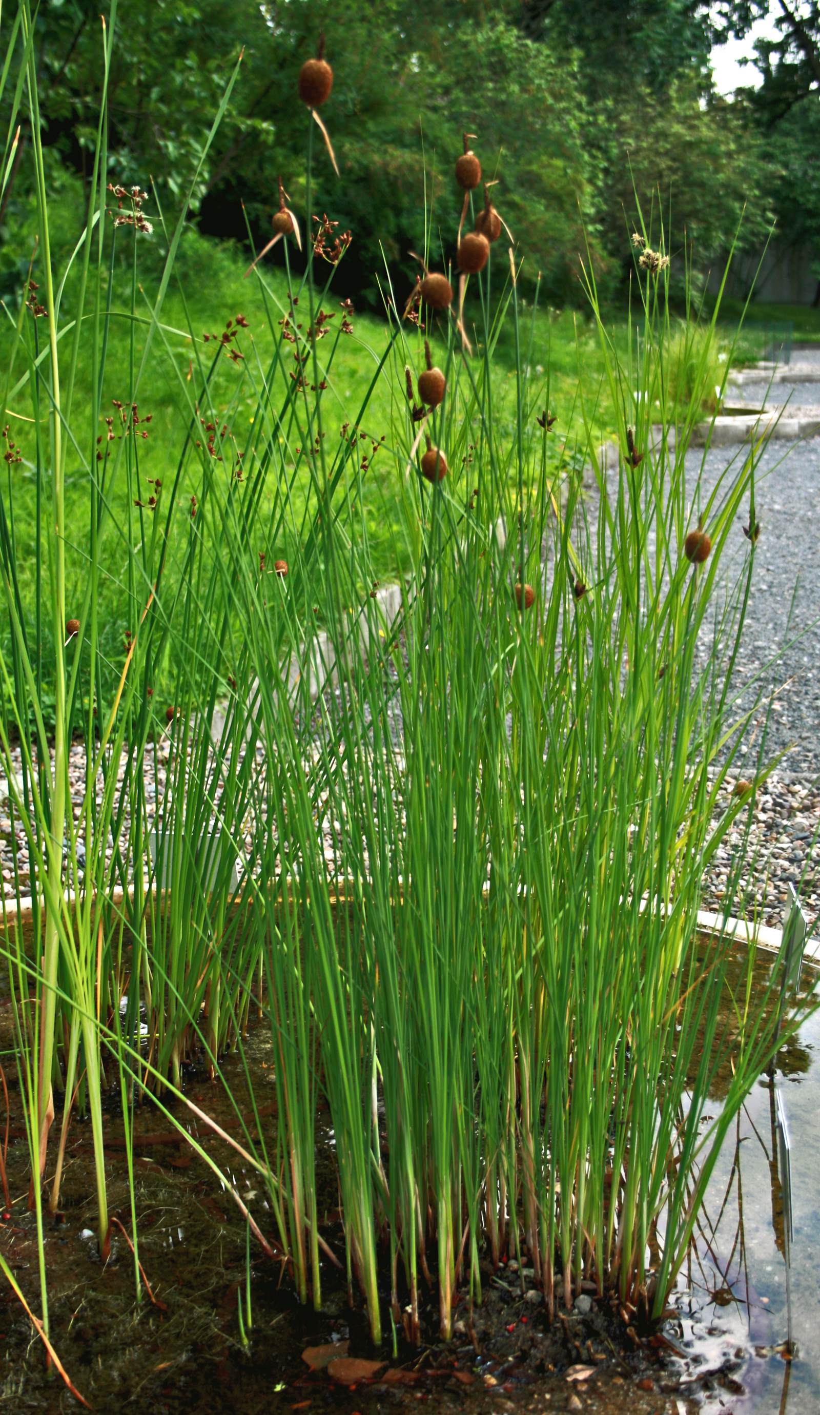 Typha minima, from Botanical Garden of Charles University in Prague, Czech Republic